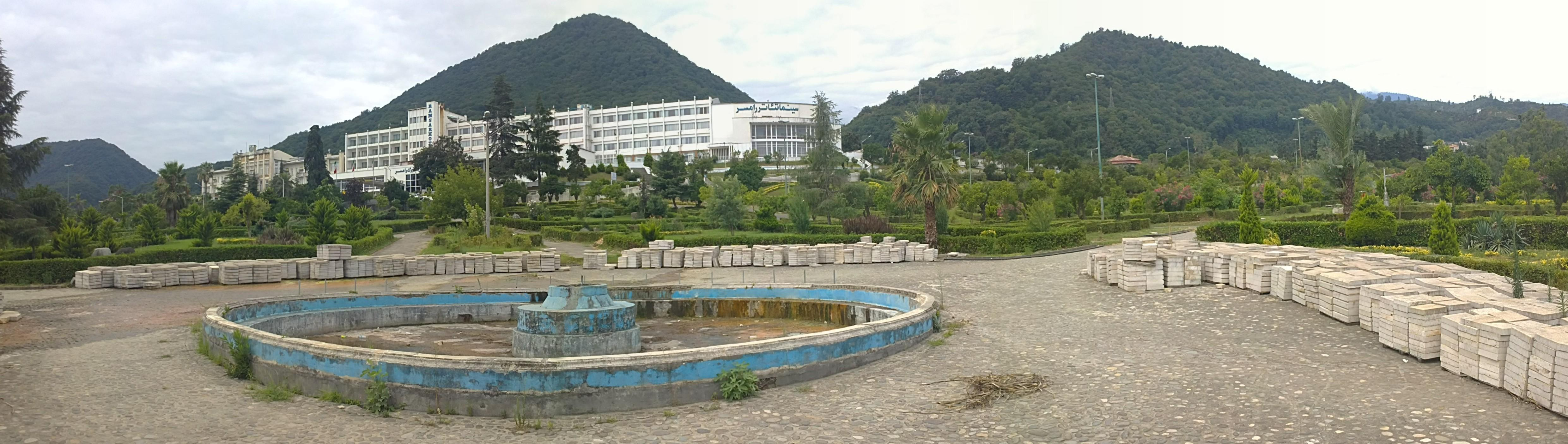 Panorama view of Hotel Ramsar - June 2014